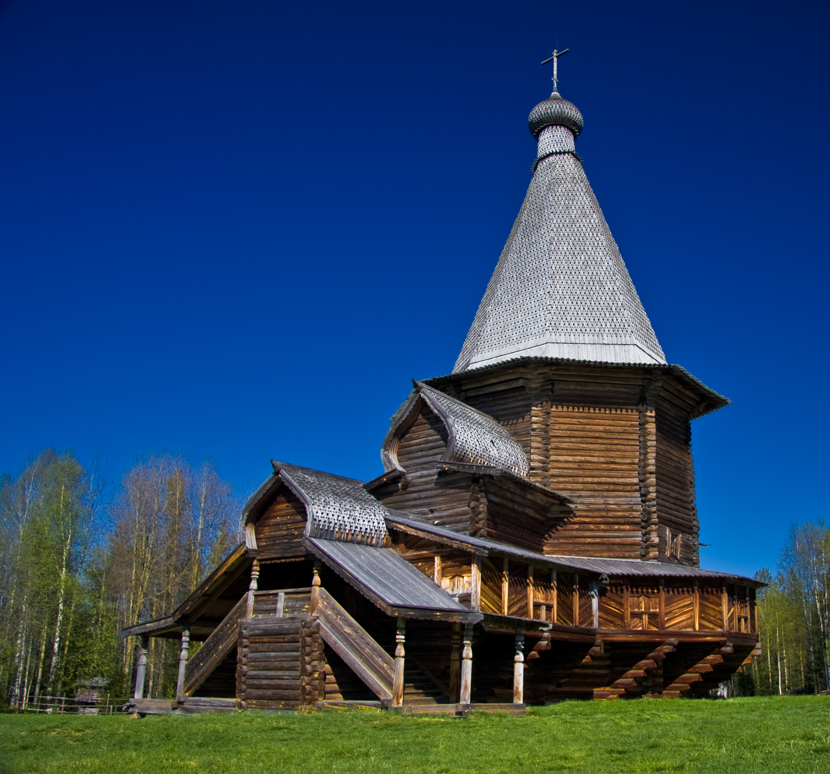 Malye Korely State Museum of Wooden Architecture (Малые Корелы) near Arkhangelsk, Russia. St George's Church from the village of Vershiny, Verkhnyaya Toyma District, 1672.